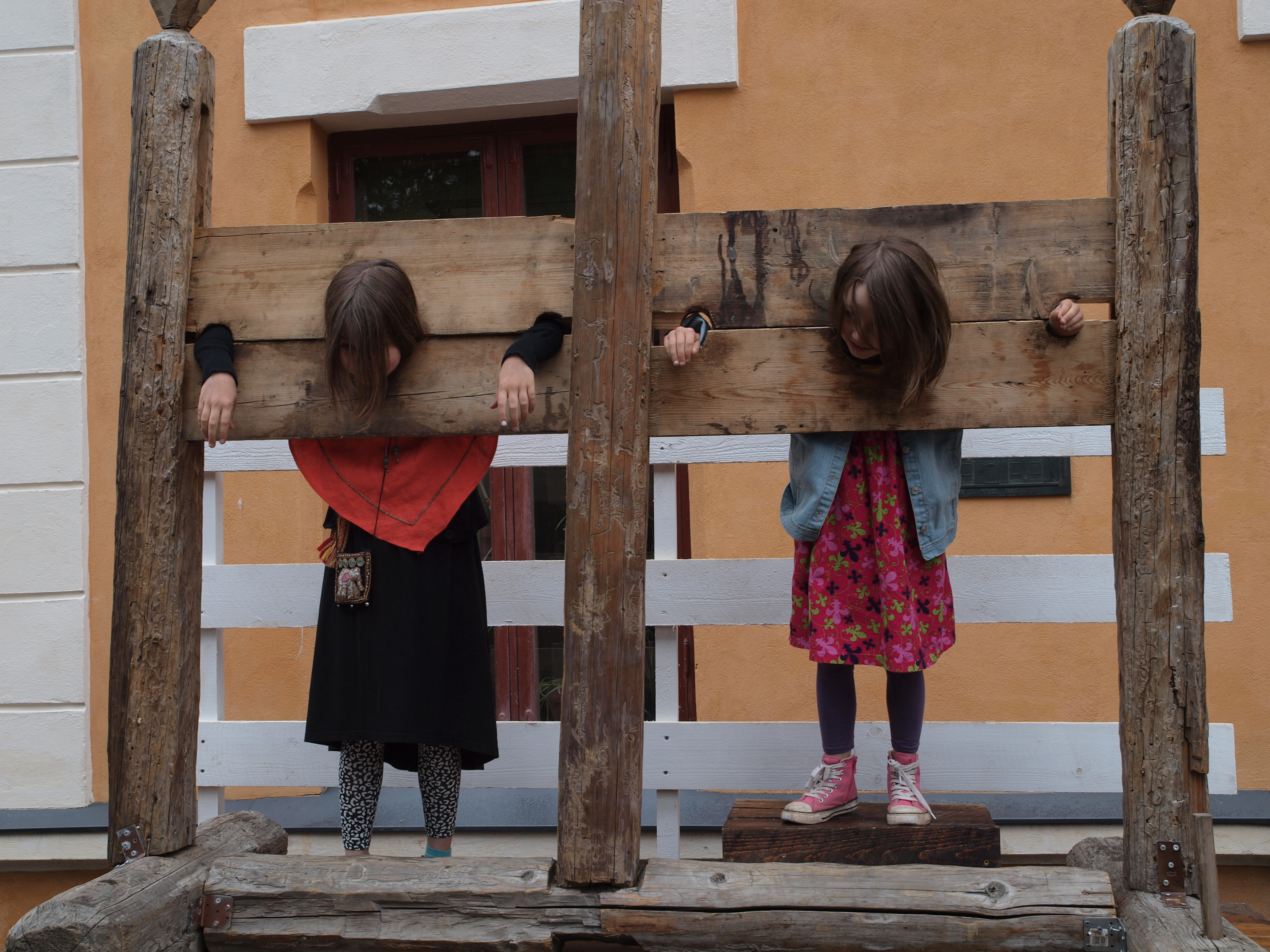 Two little girls, playfully locked in stocks or pillory at the Turku Medieval market 2015 in central Turku, Finland Proper (I still refuse to call it "Southwest Finland"), Finland.